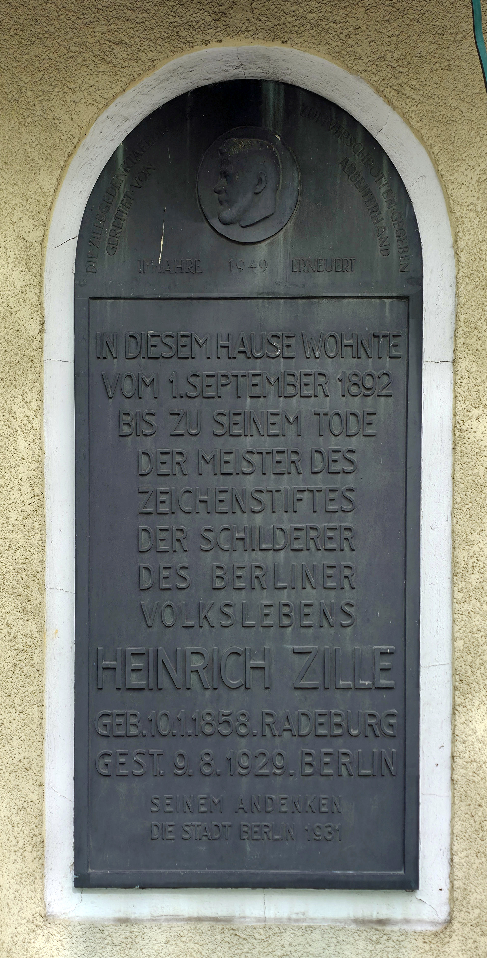 Memorial plaque, Heinrich Zille, Sophie-Charlotten-Straße 88, Berlin-Charlottenburg, Germany